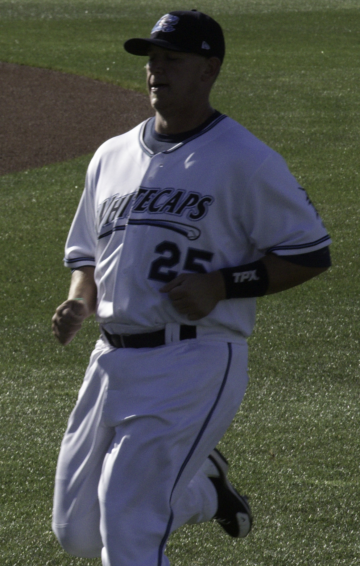 Colin Kaline (left) and Dean Green with the West Michigan Whitecaps at Fifth Third Ballpark in Comstock Park, Michigan in 2012